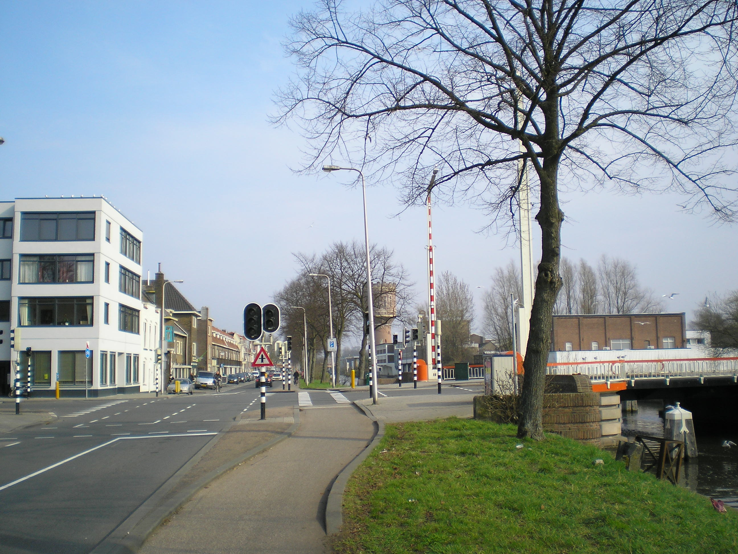 Jutfaseweg and the Orange Bridge in Utrecht in the Netherlands